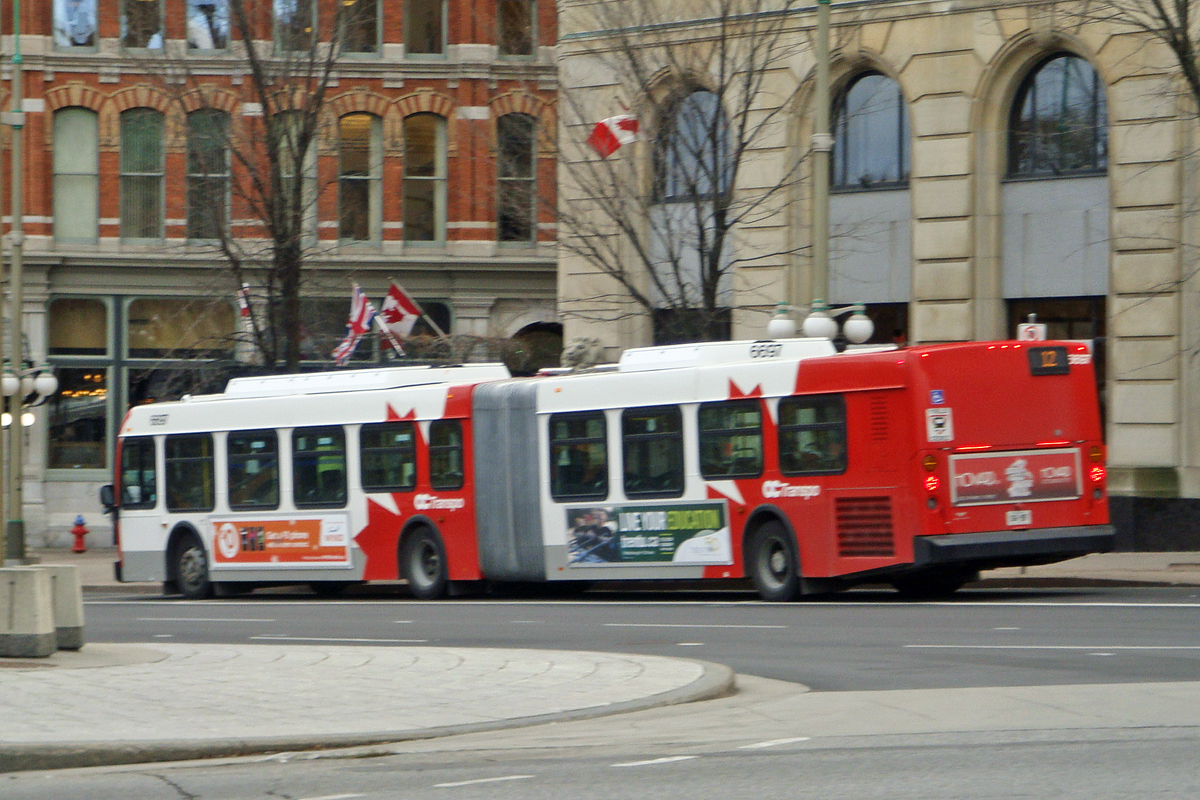 OC Transpo New Flyer D60LFR articulated bus #6697, Elgin Street, Ottawa, Ontario, CAN